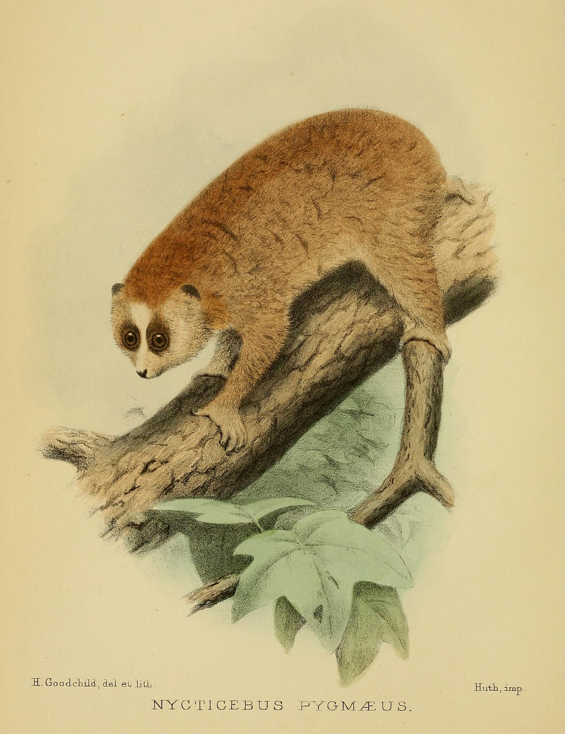 Bonhote, J. Lewis (1907). "On a Collection of Mammals made by Dr. Vassal in Annam". Proceedings of the Zoological Society of London 77 (1): 3–11. Illustrator: Herbert Goodchild (apparently died between 1916 and 1924). Image cropped by uploader.